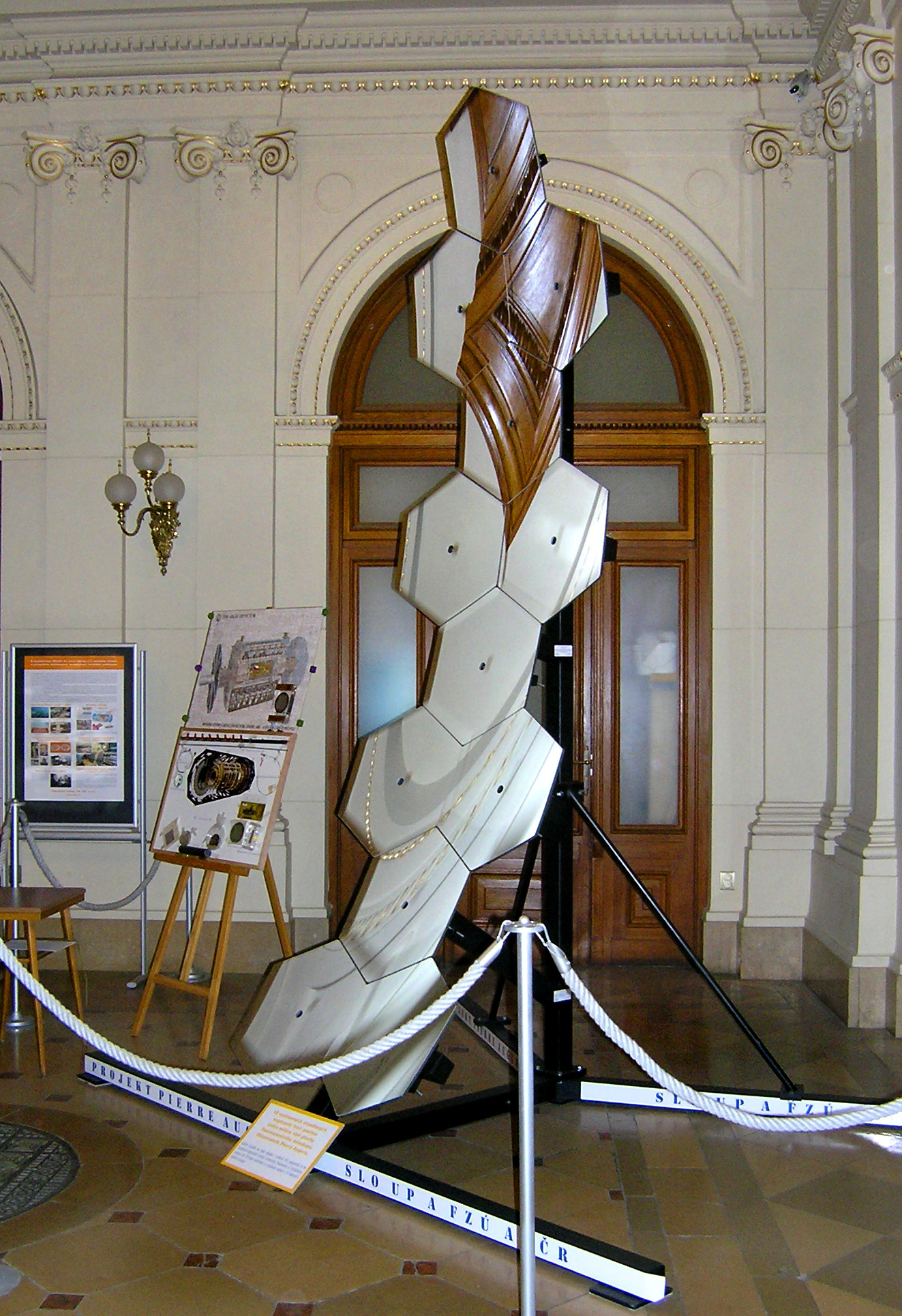 Mirrors for HEAT (High Elevation Auger Telescopes) for Pierre Auger Observatory. Academy of Scienses, Prague, Czech Republic.